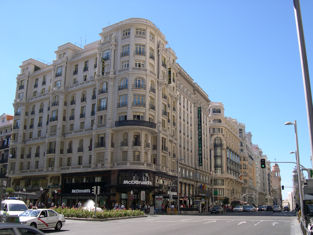 Building at 23 Gran Vía, a downtown avenue in Madrid (Spain). Projected in 1917 by architects Vicente Agustí Elguero and José Espelius Anduaga, and built from 1918 to 1922.